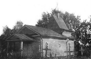 The Church of Laying Our Lady’s Holy Robe from the village of Borodava near Ferapontov Monastery. Photo. Near 1930